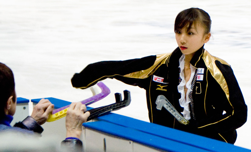 2010 Cup of Russia, short program.